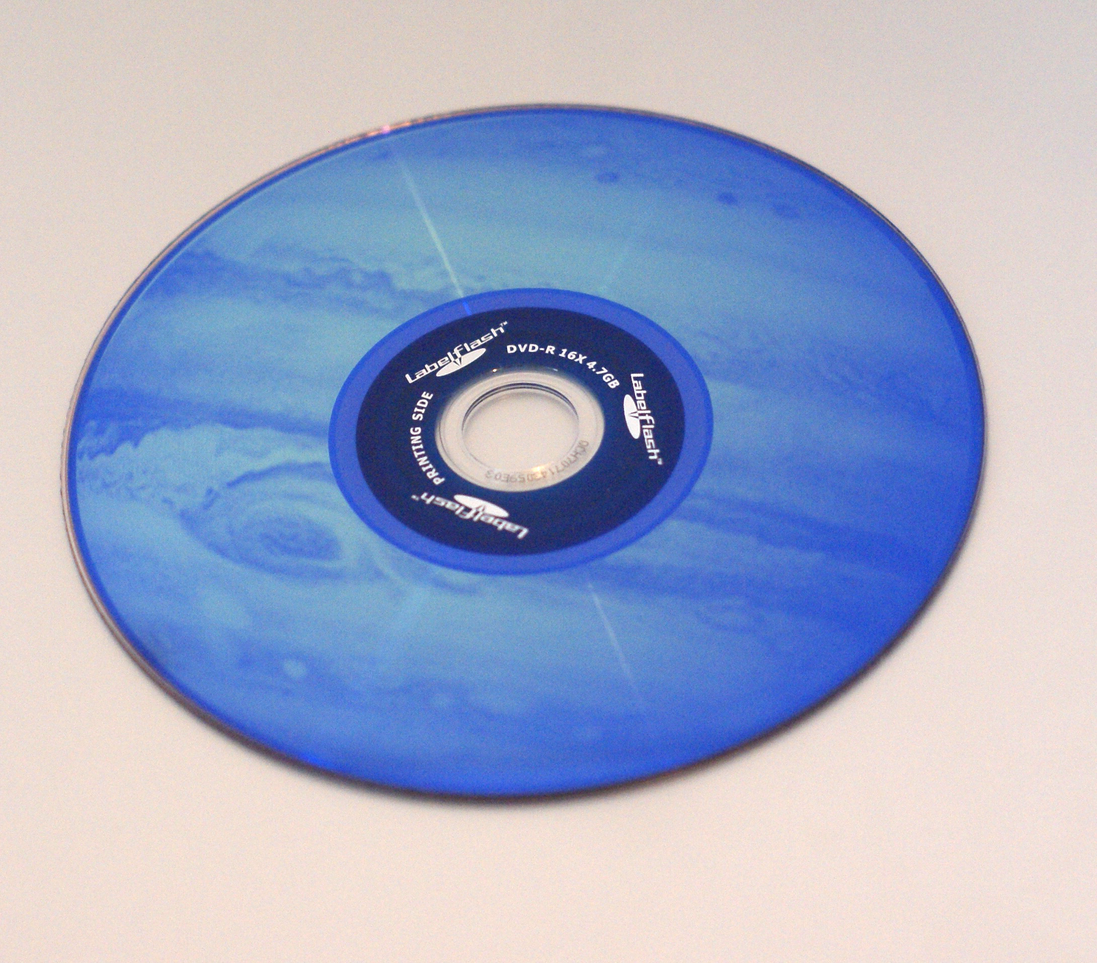 LabelFlash